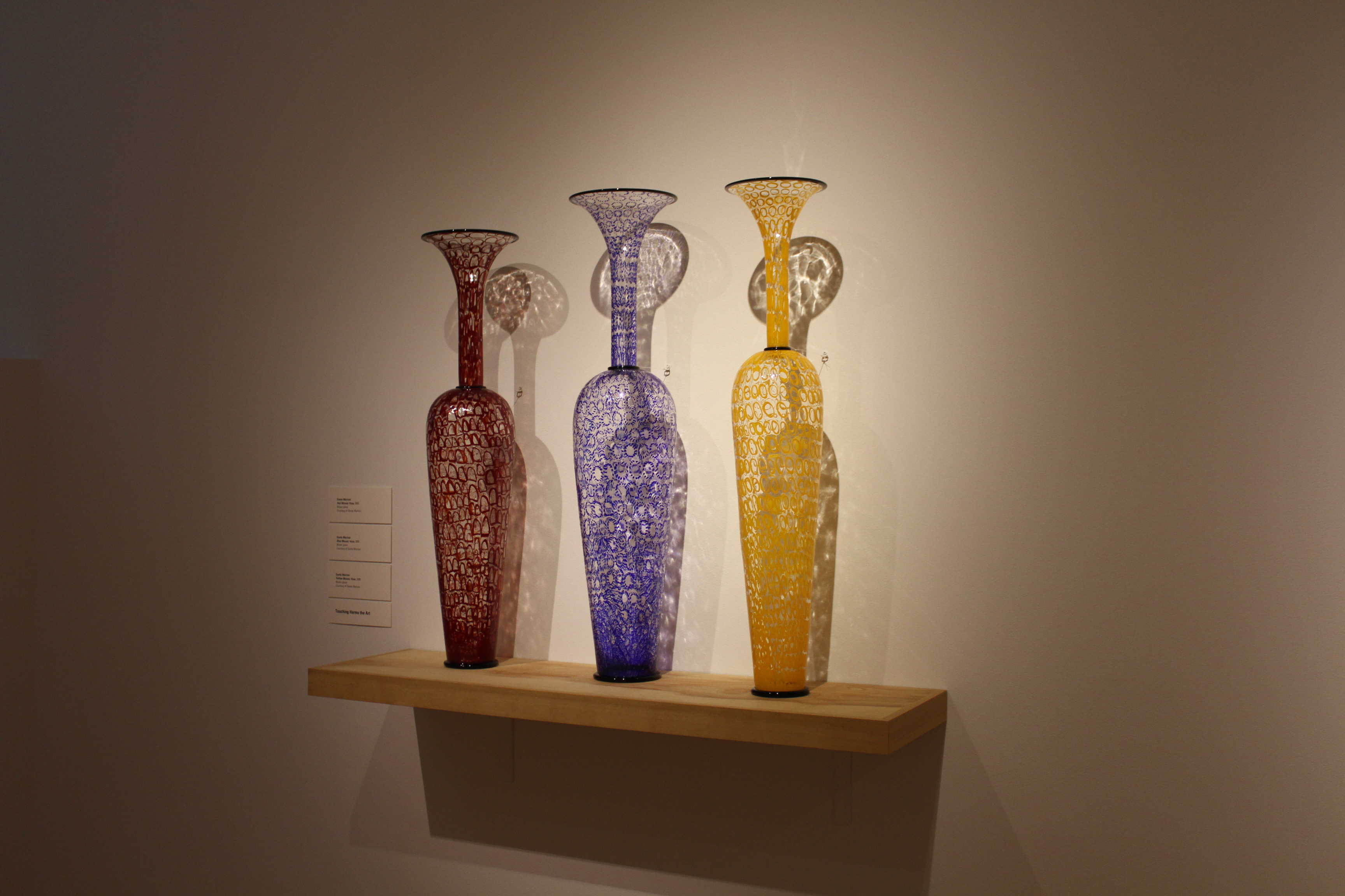 Glass Art by Dante Marioni at The Tacoma Art Museum as part of The Paul Marioni Collection Show